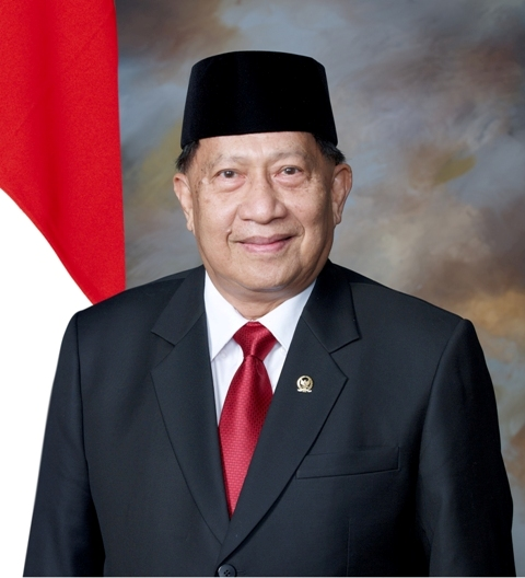 EE Mangindaan as Deputy Speaker of People's Consultative Assembly